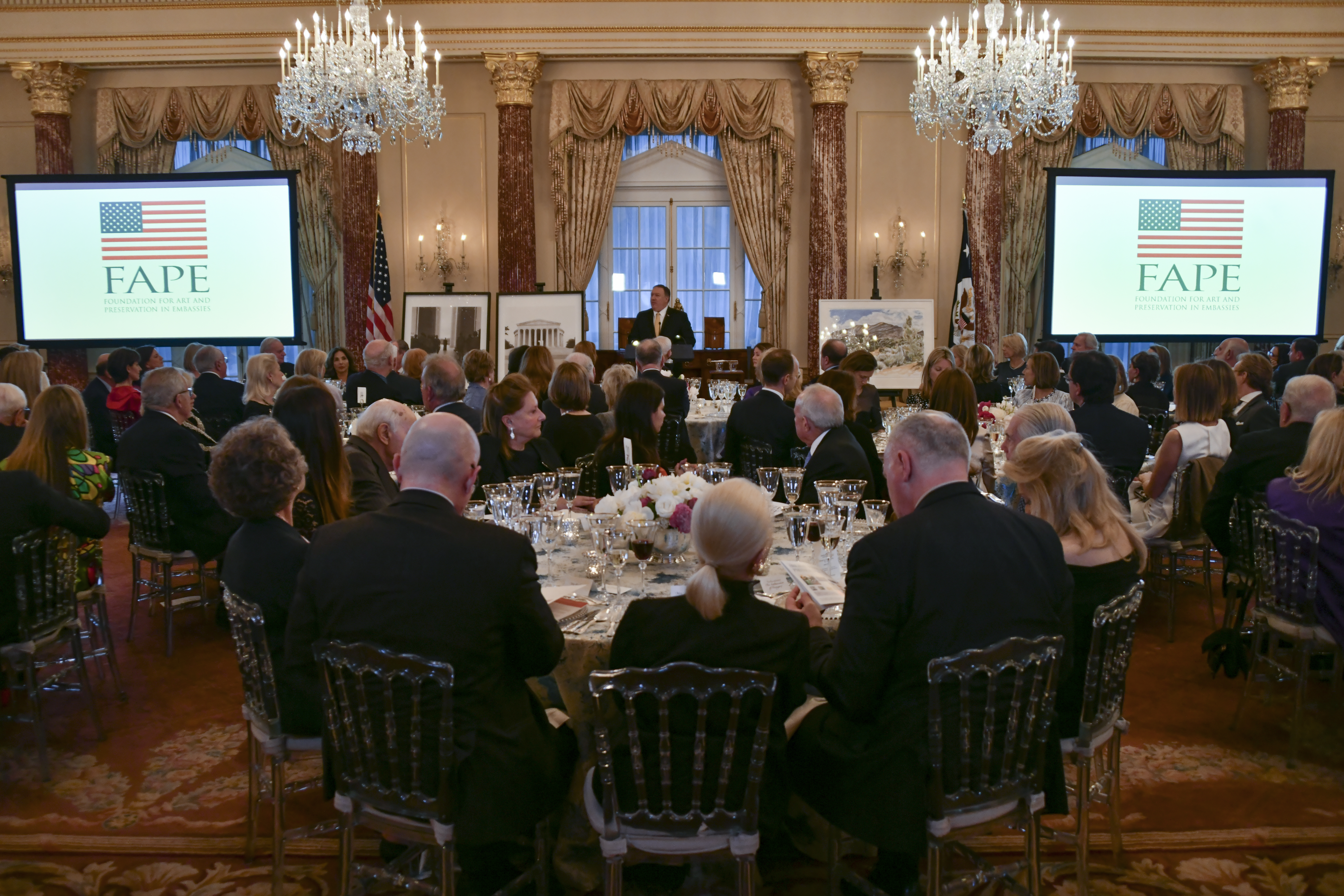 U.S. Secretary of State Michael R. Pompeo delivers remarks at the Annual Foundation for Art and Preservation in Embassies (FAPE) Dinner at the U.S. Department of State in Washington, D.C., on April 29, 2019 [State Department photo by Ron Przysucha/Public Domain]